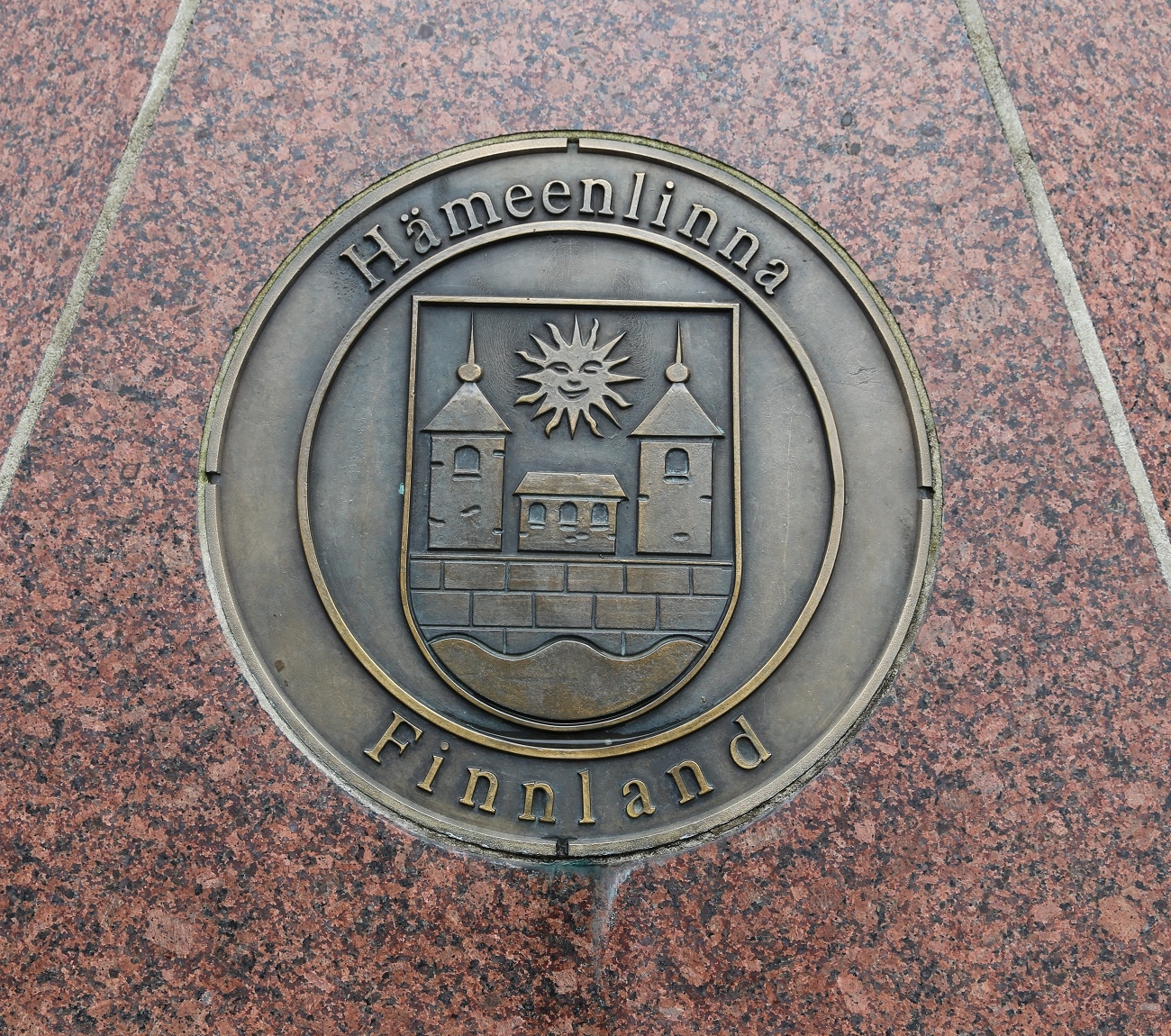 Hämeenlinna is one of the twinned towns / sister cities of Celle in the North of Germany. Placed at a work of art with the further seals of her twinned towns. Inserted in polished granite of a multilateral similar to pyramid polygon (see survey photography)